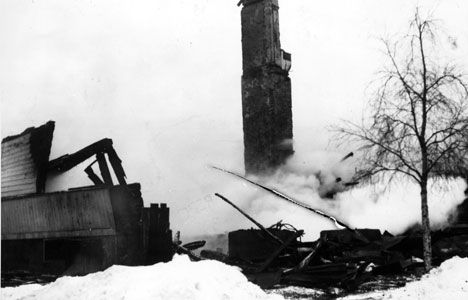 Photo of the ruins of the Communist Party's newspaper Norrskensflamman in 1940.